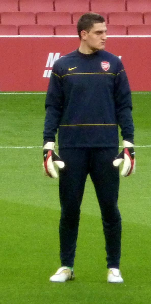 Arsenal F.C. goalkeeper Vito Mannone.